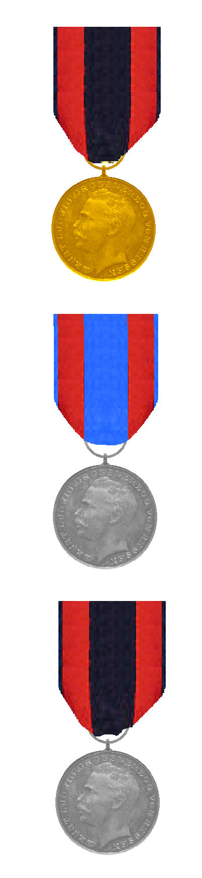 Medals